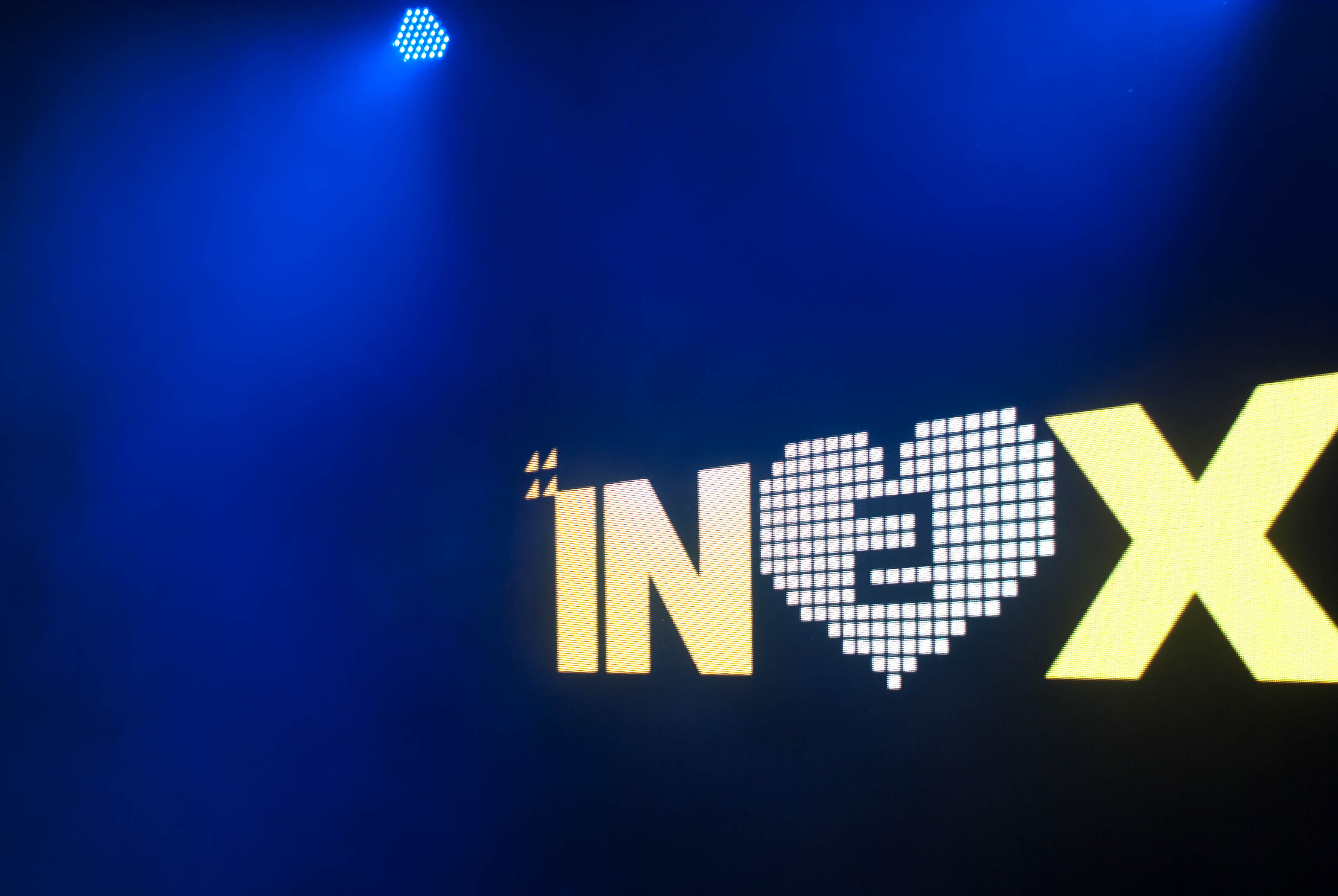 Stage of the 2nd Edition of Inox Paris Festival (09/10/2011), including the Inox Festival logo.